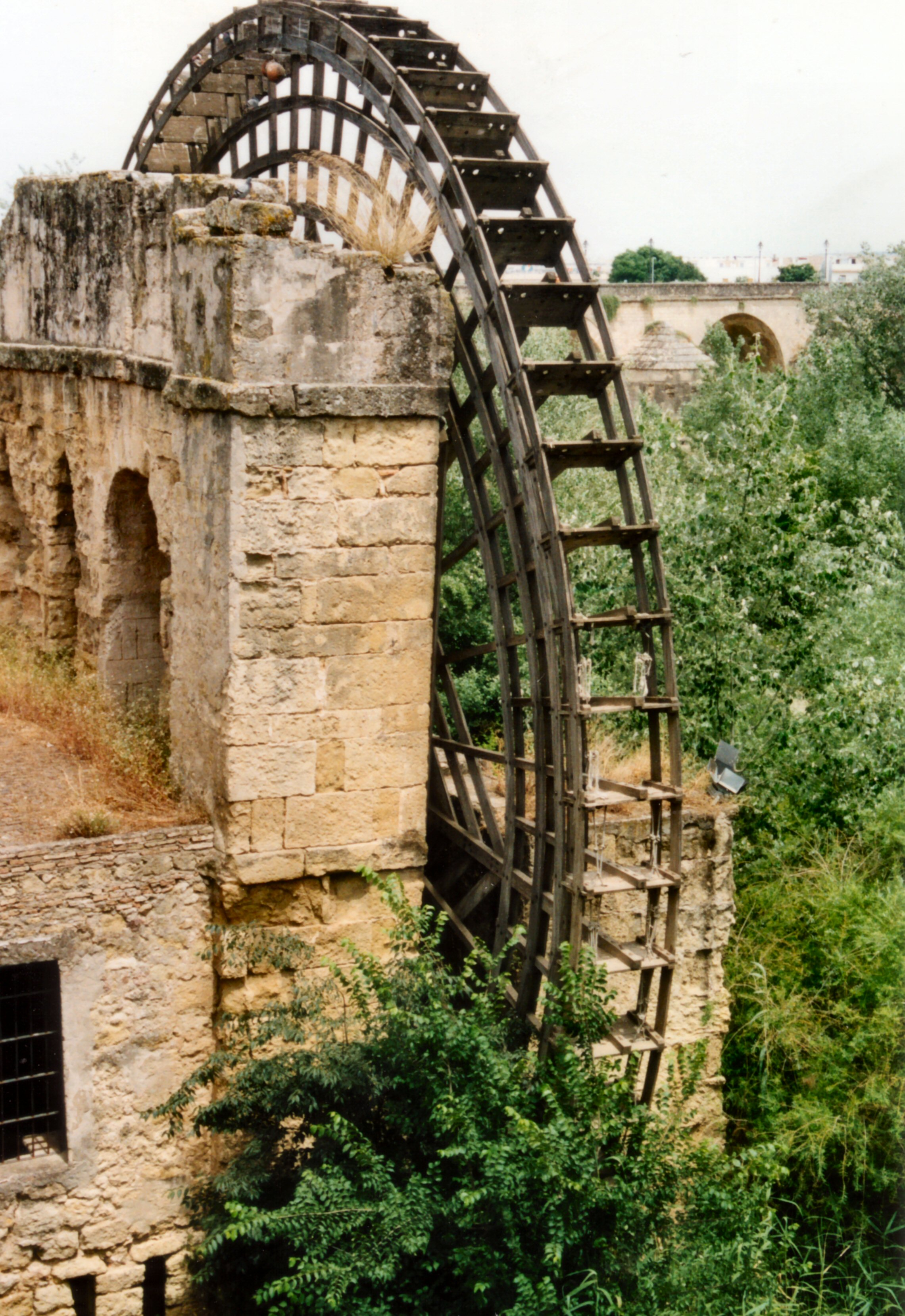 On the Rio Guadalquivir, just downstream from the Puente Romano (Roman Bridge) is an Islamic water wheel that once would have raised water to the caliph's palace.